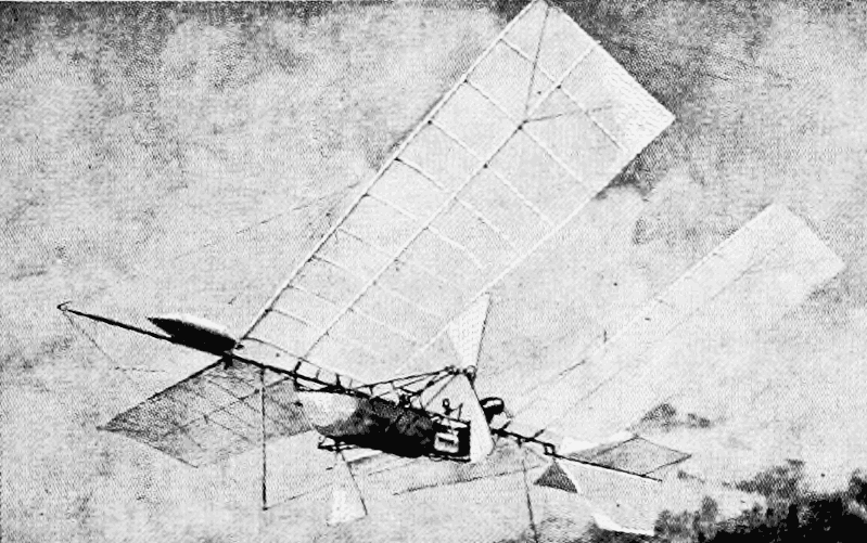 The aerodrome as it might appear in the air